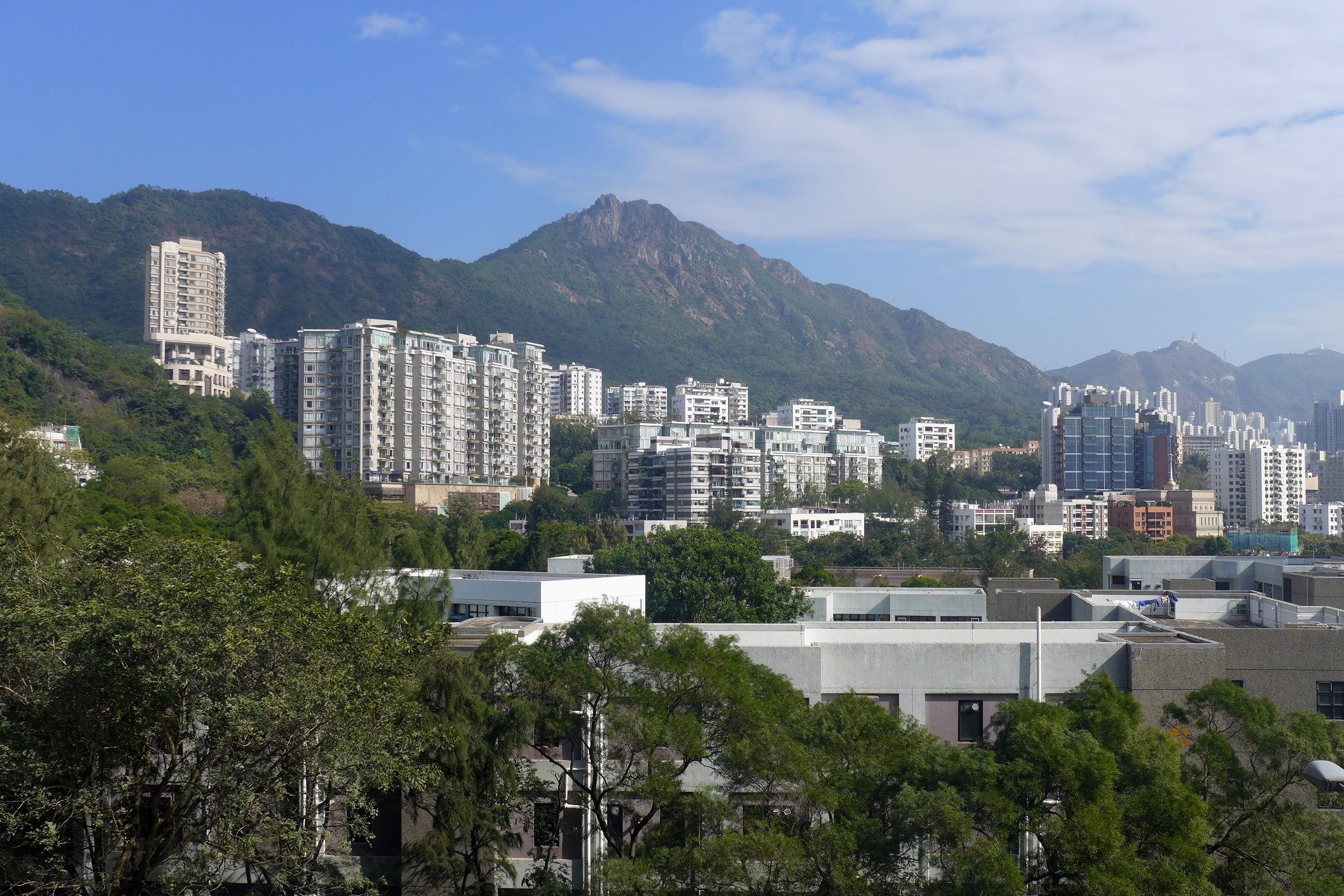 Kowloon Tong Apartments